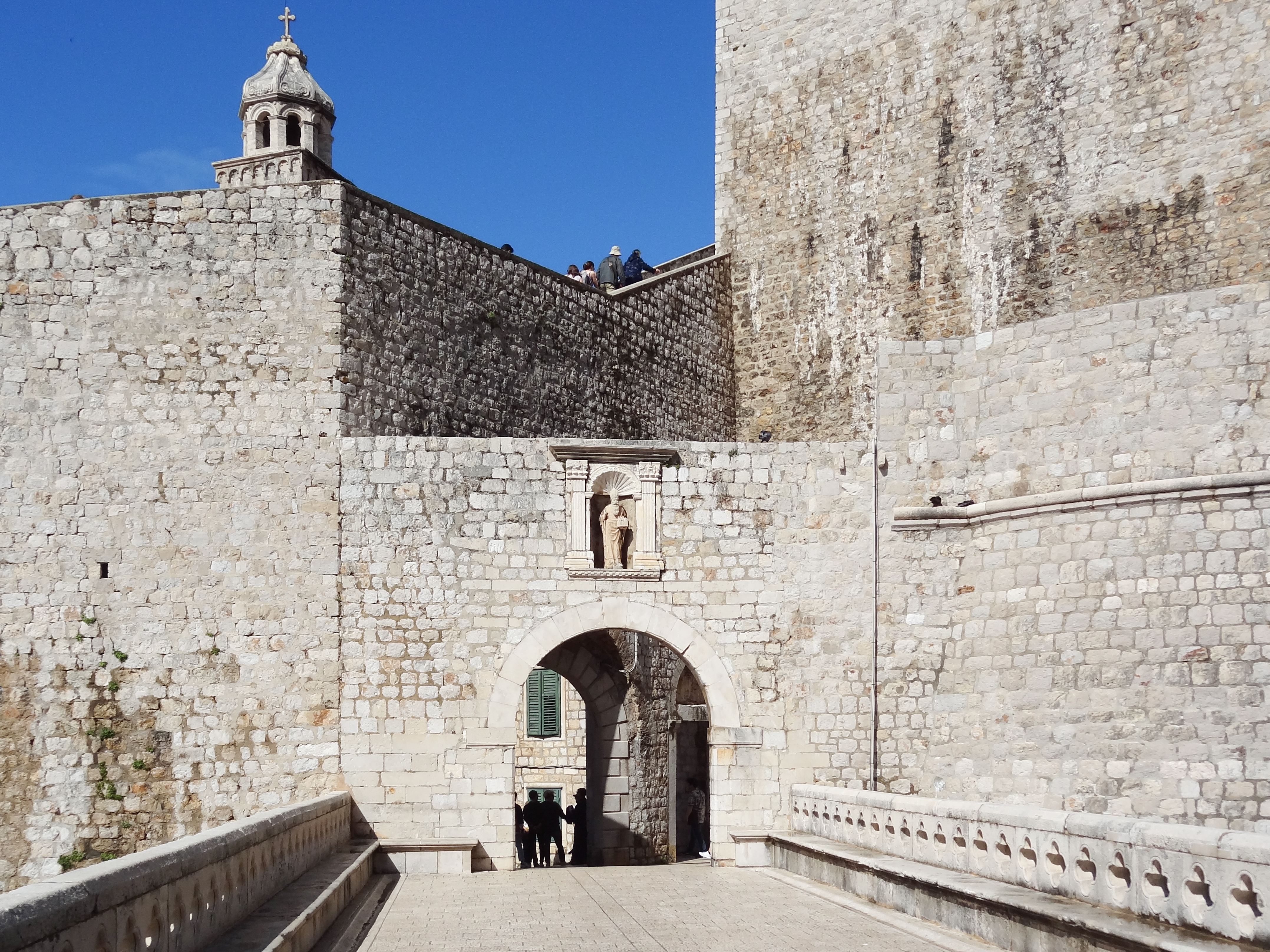 Ploče Gate, Dubrovnik, Croatia